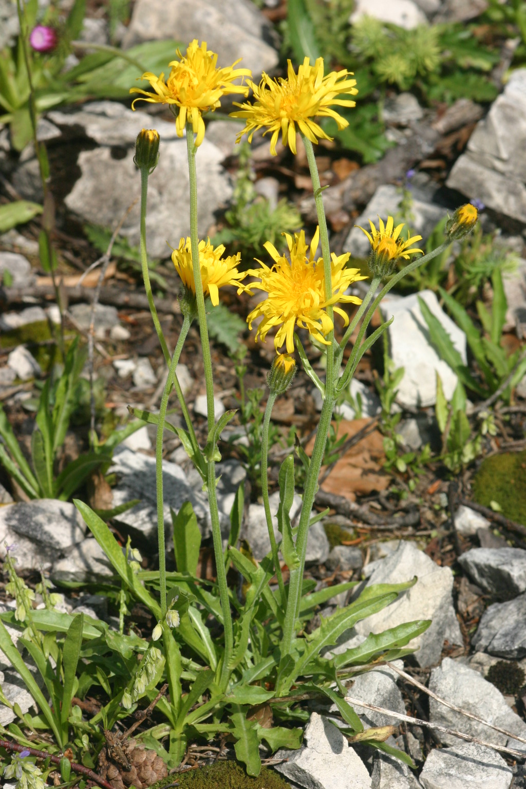 Crepis alpestris